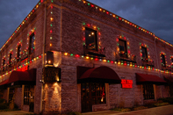 Author: Dale Johnson, IT Director of Jack Stack Barbecue.